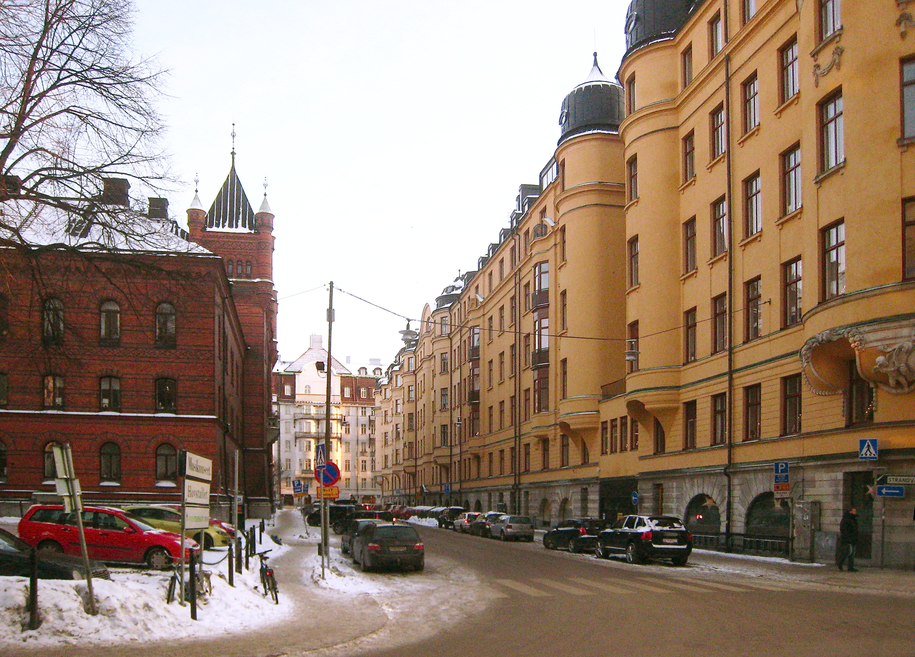 Väpnargatan